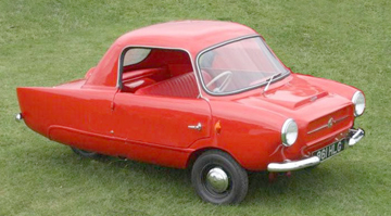 1959 Meadows Frisky Family Three